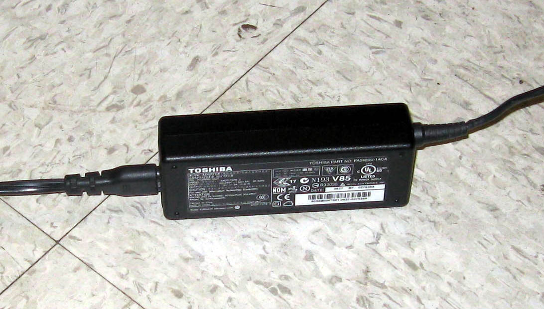 Multiwatt Wall wart power brick for a turn of the century Toshiba laptop.